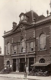 Old postcard showing Maidenhead Guildhall